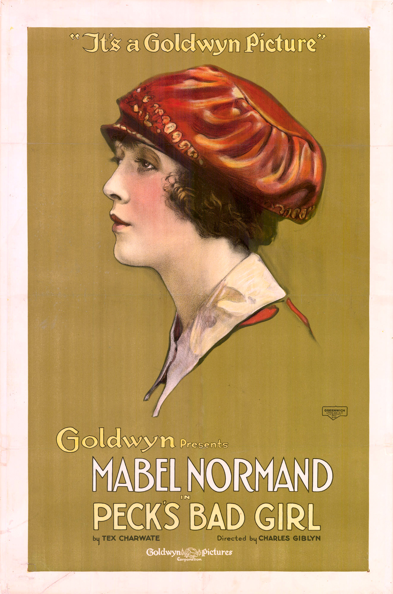 Poster from the 1918 film Peck's Bad Girl.